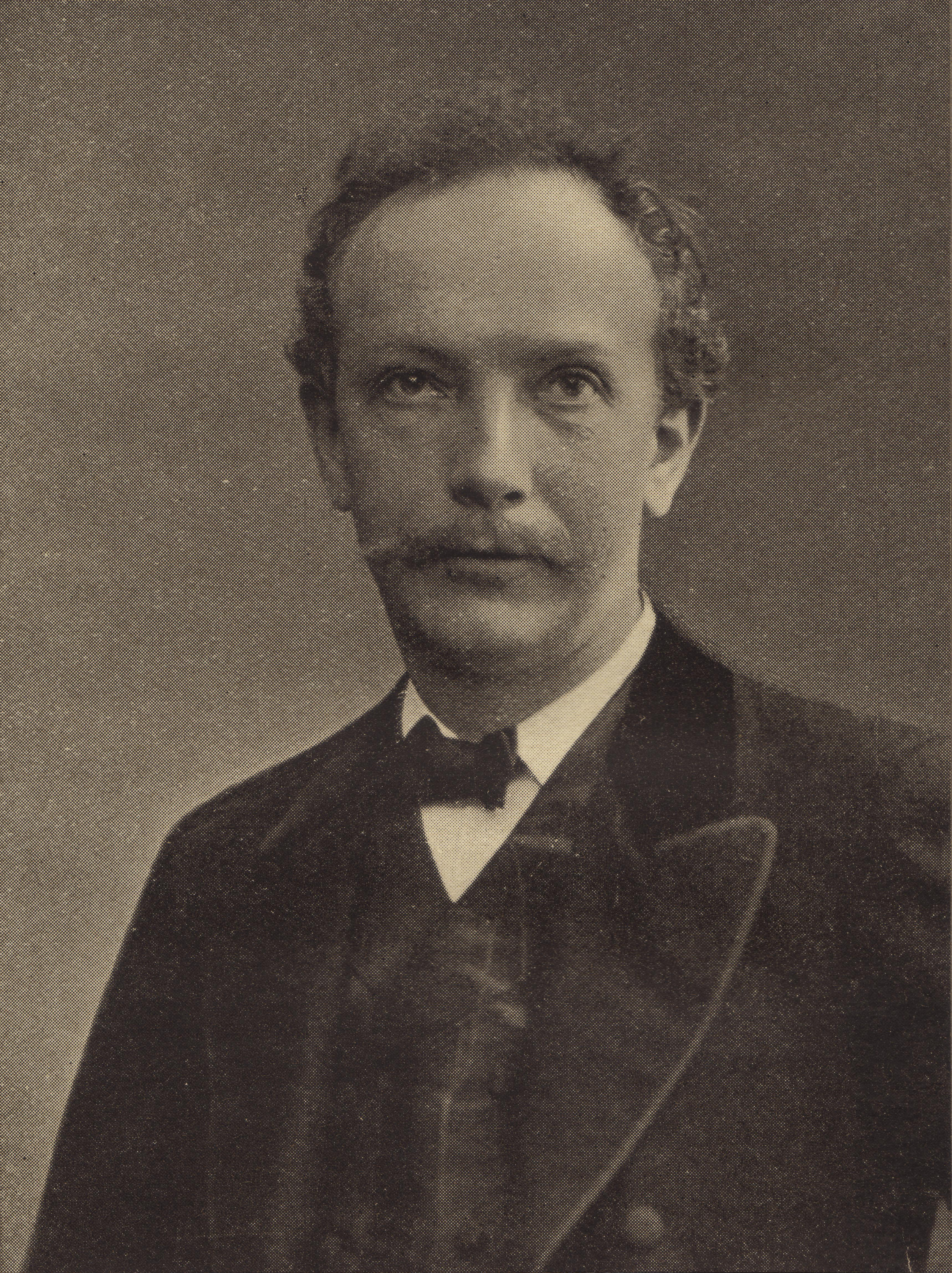 Scanned from Modern Musicians by J. Cuthbert Hadden (First published by T.N.Foulis in 1913) - September 1918 Foulis reprint. Book is in the Public Domain in the US and UK. Scanned as 1200 dpi bitmap (photo) then converted to jpeg.